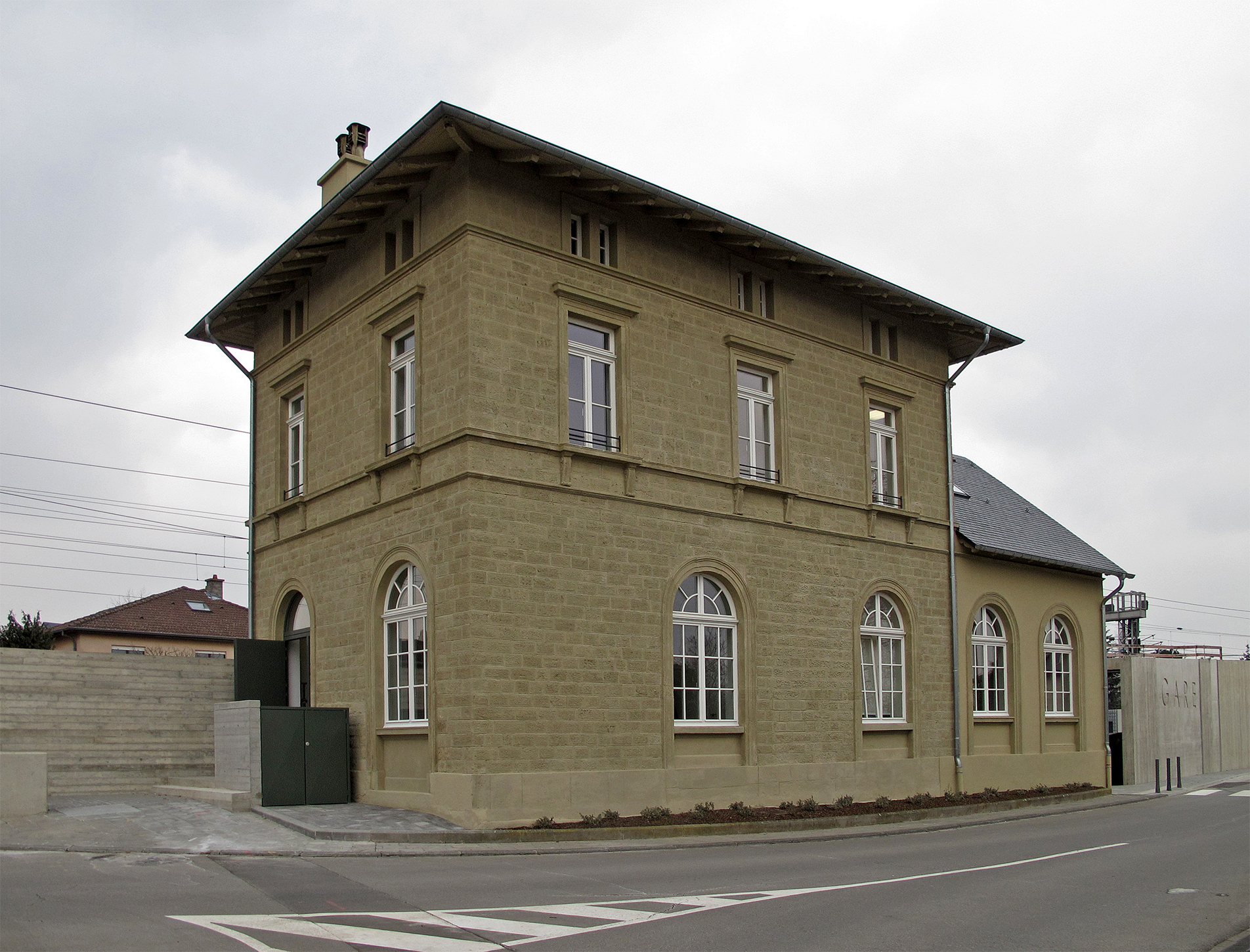 Former Train station building of Noertzange, Luxembourg